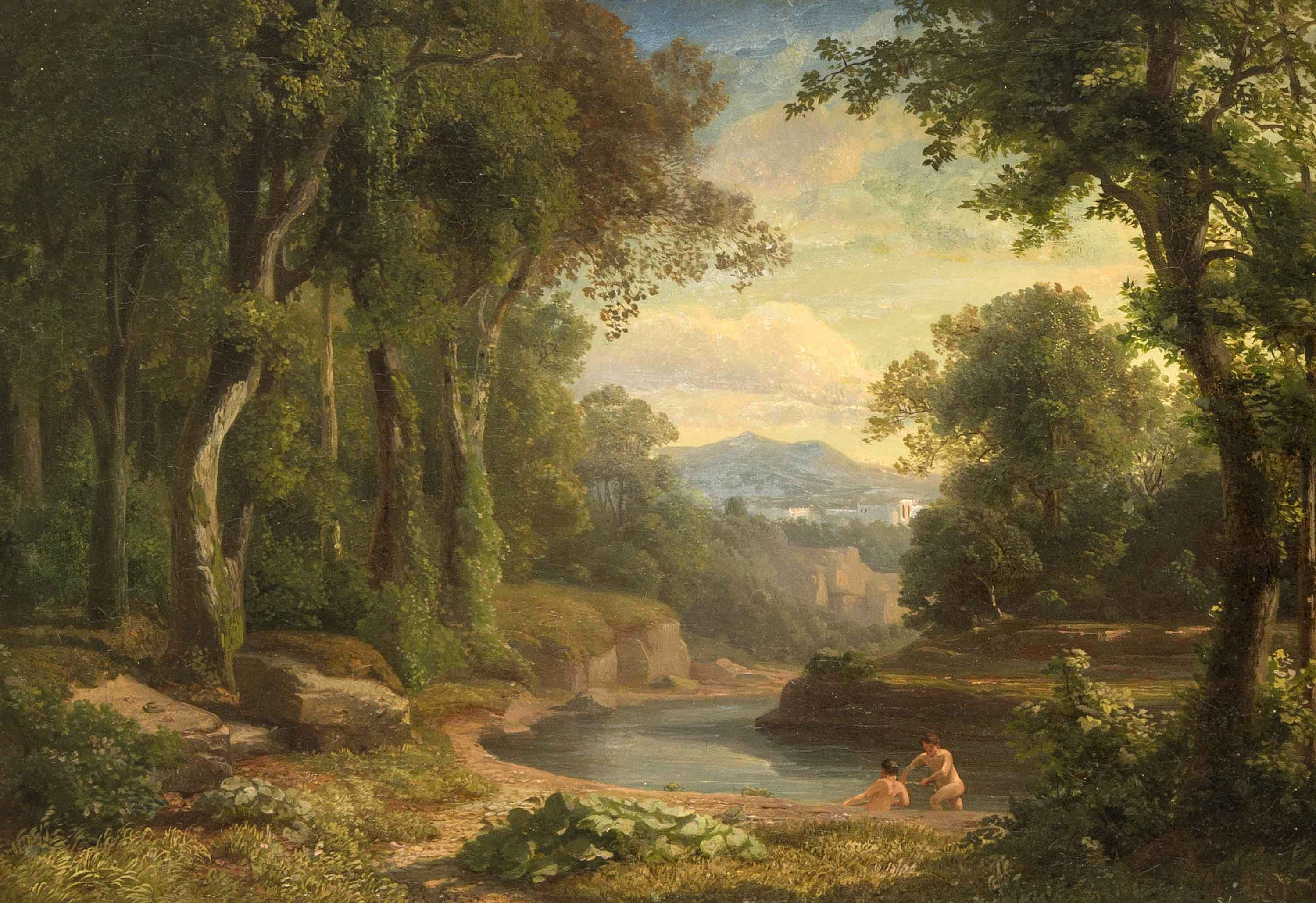 River landscape with forest